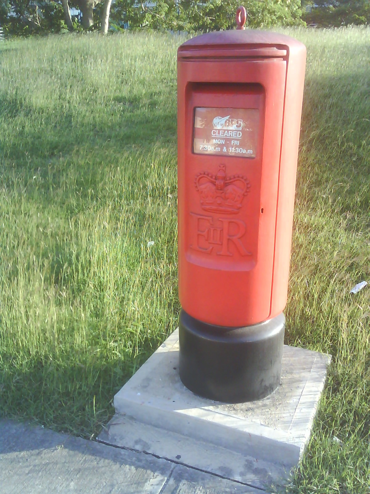 Post box in Warrens, Saint Michael, Barbados. It bears the cypher of the Sovereign and the times of collections.